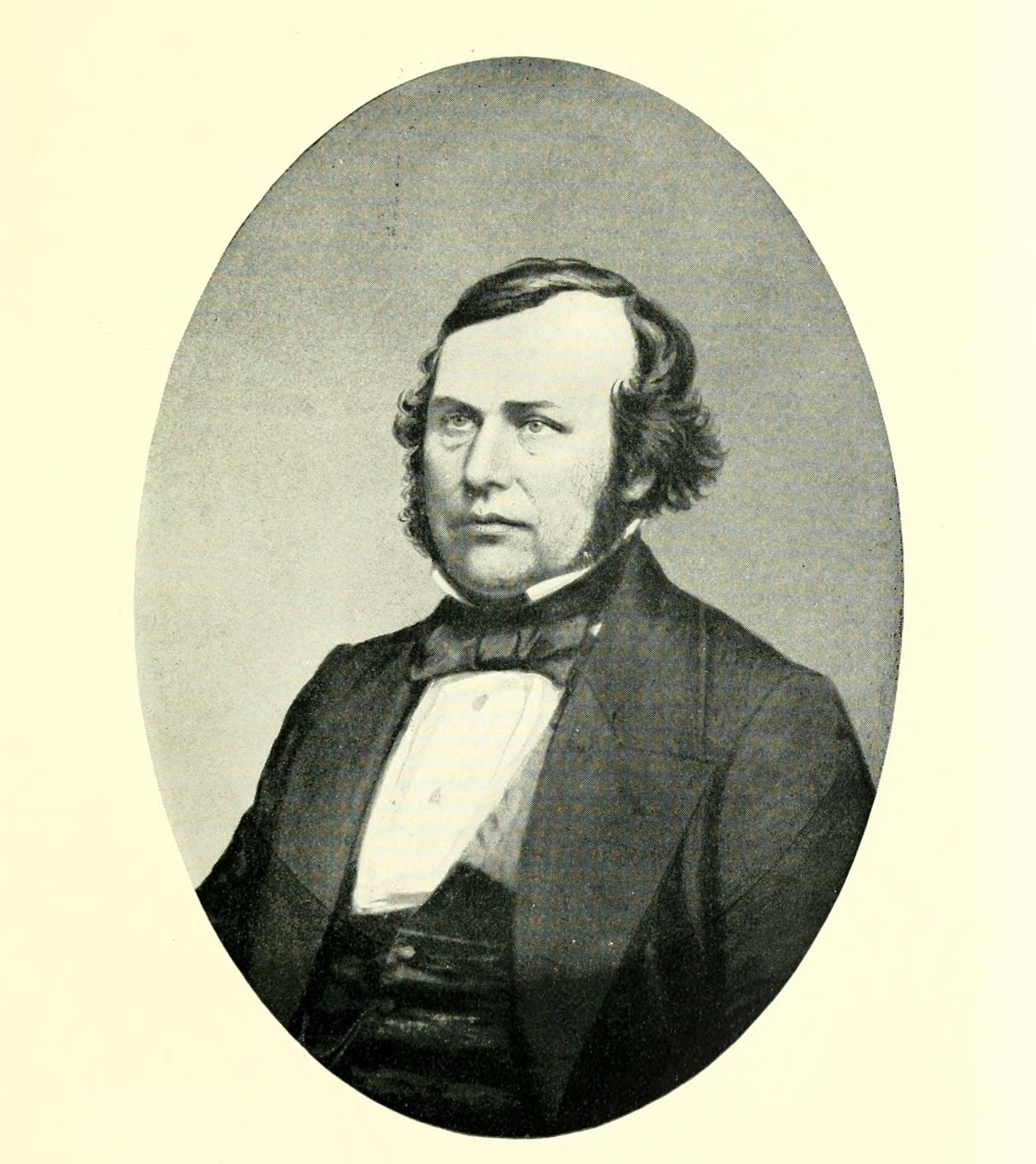 "The poet's father."